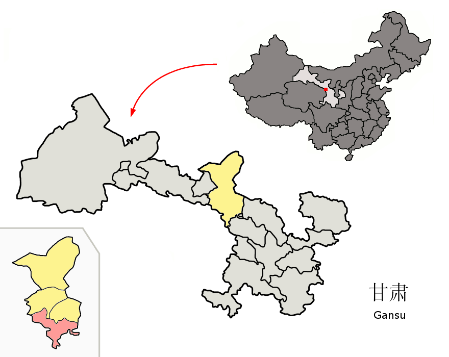 Location of Tianzhu County (pink) within Wuwei Prefecture (yellow) and Gansu province of China Map drawn in september 2007 using various sources, mainly : Gansu province administrative regions GIS data: 1:1M, County level, 1990 Gansu Counties map from